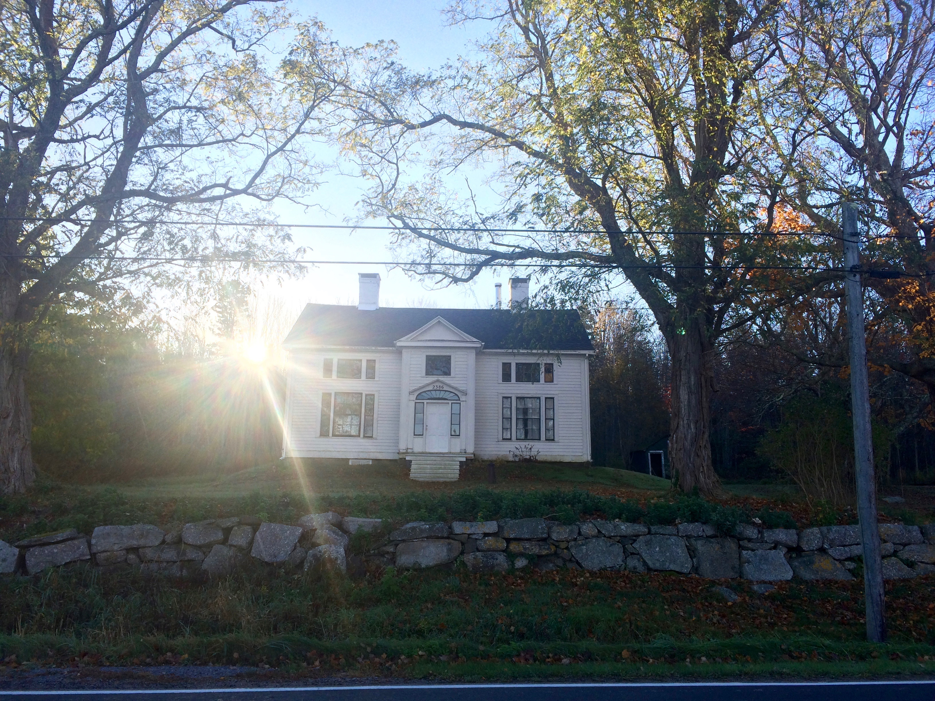 Circa 1780s, this historic 'antique' house sits prominently on a knoll with breathtaking views and frontage across the road on the Annapolis River. Known to be Colonel James Delancy's House, (cowboy of the Bronx), is very much in its original state with high ceilings, wide plank floors, grand staircase and huge windows.